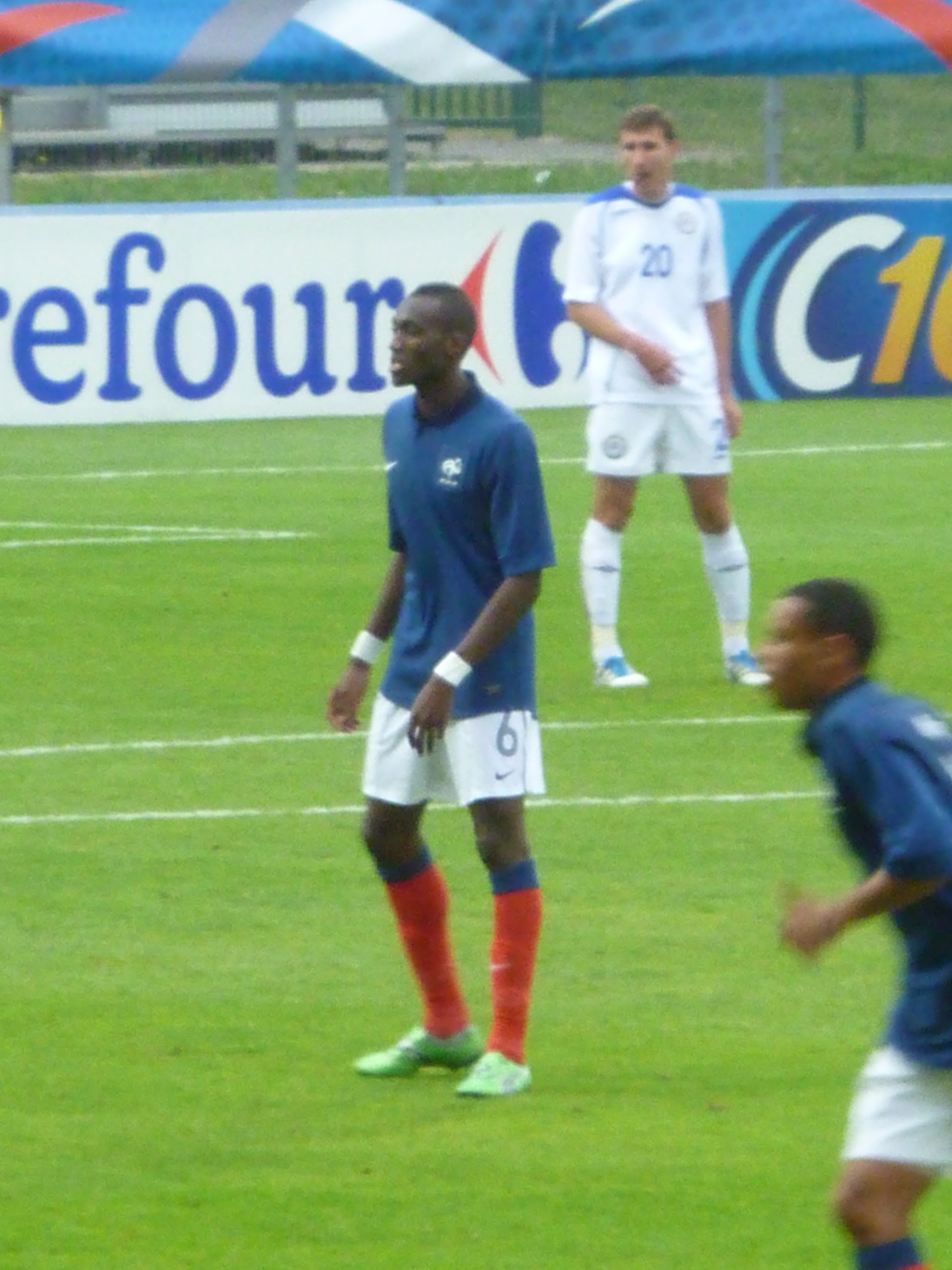 Josuha Guilavogui, midfielder, of the French U21 national team. Qualifier against Kazakhstan in Clermont-Ferrand.